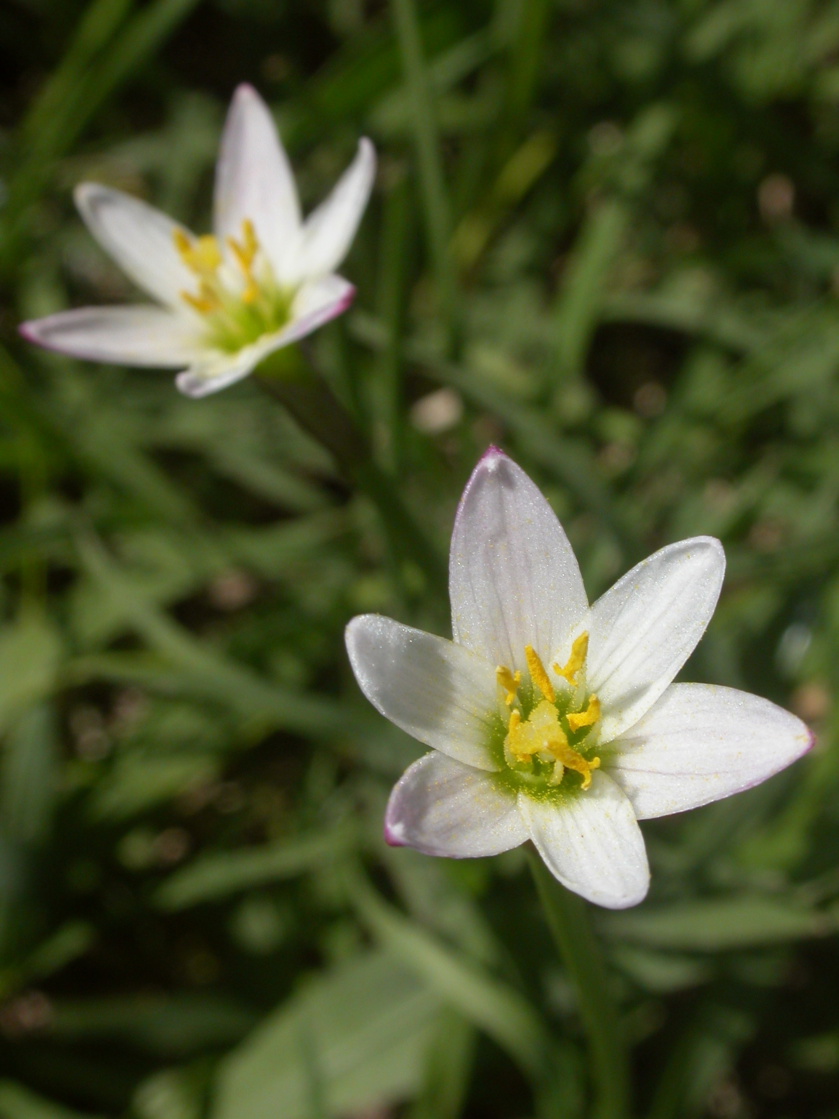 Two Zephyranthes minima plants blooming in situ in La Plata, Buenos Aires province, Argentina.